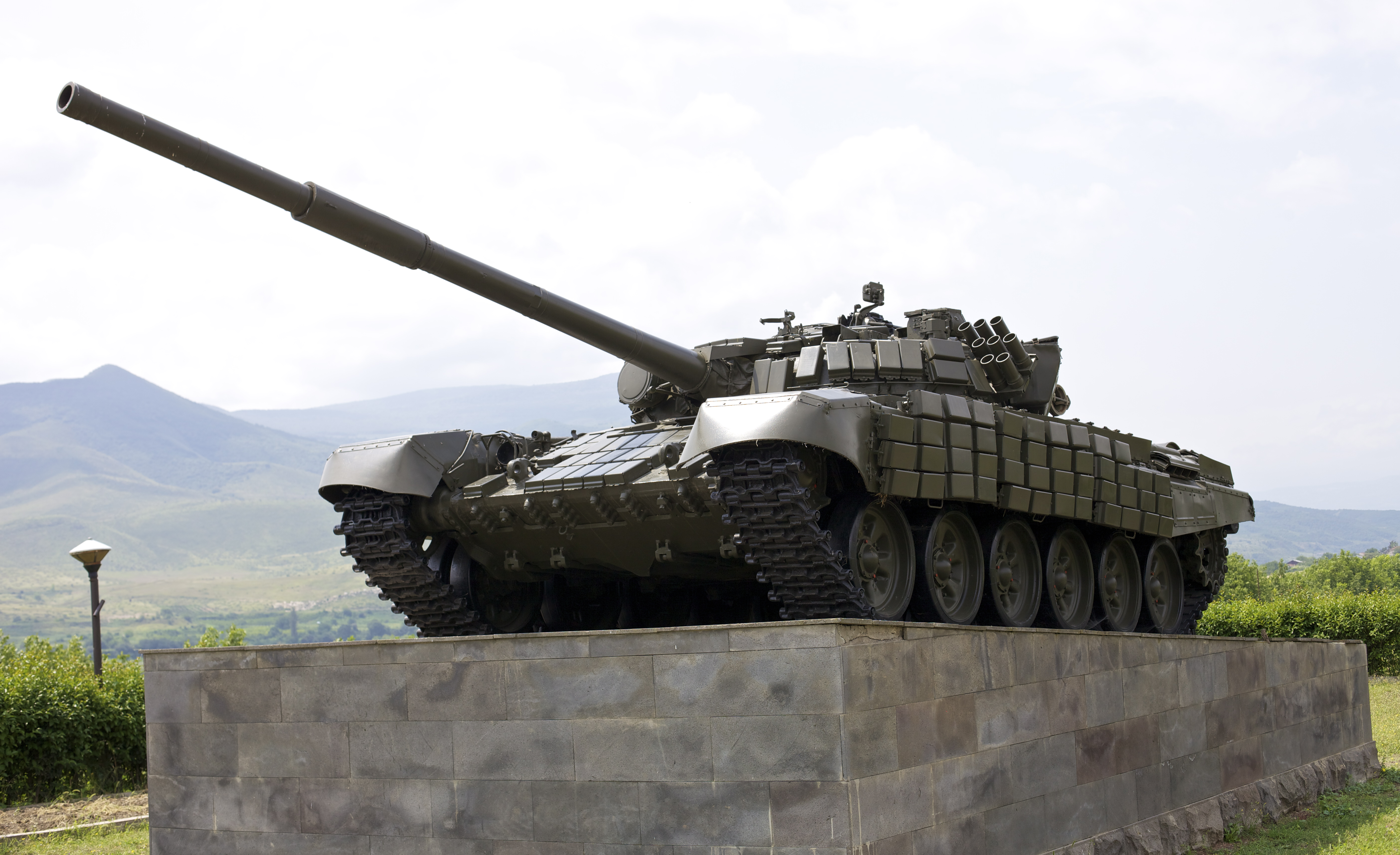 T-72 Tank memorial in Stepanakert, Nagorno-Karabakh Republic.